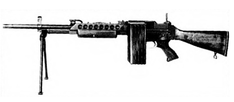 The Stoner 63 Weapon System in the "light machinegun, belt-fed" configuration